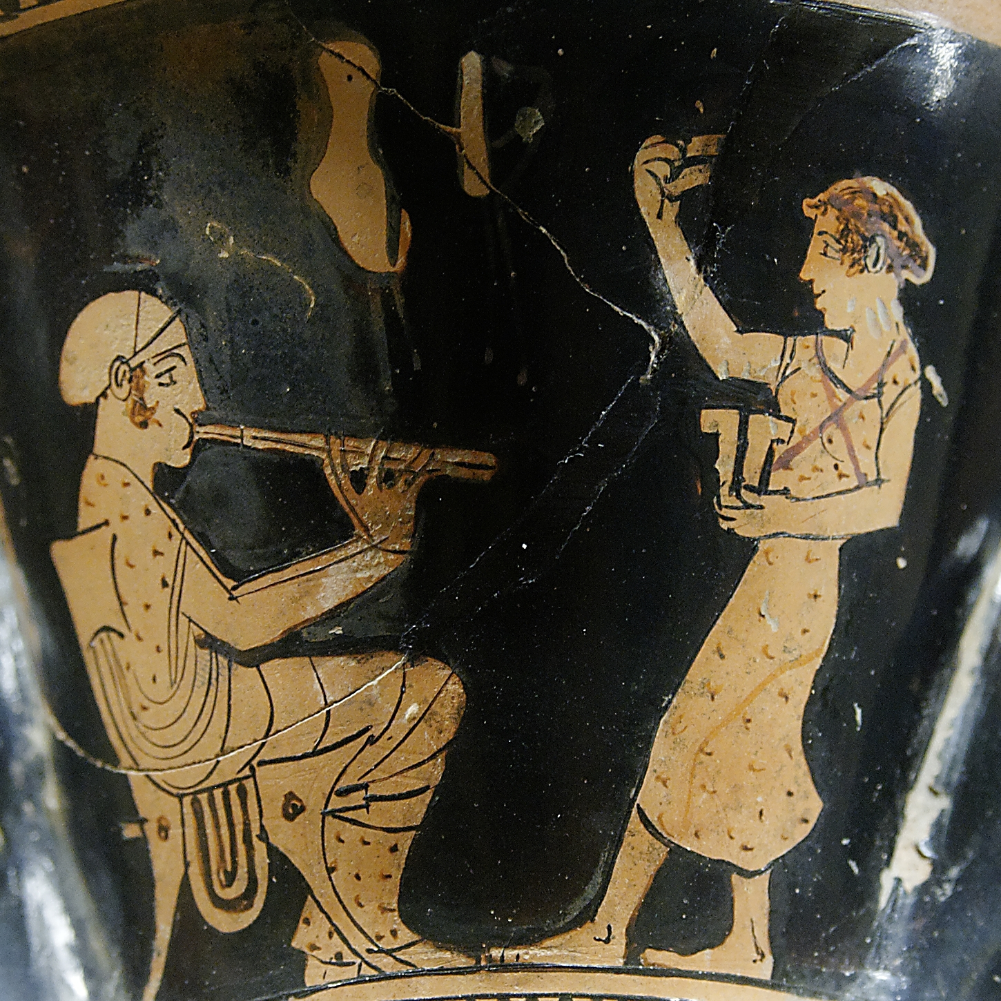 Female musician and dancer. Neck of a plastic rhyton in the shape of a donkey's head. From Athens.